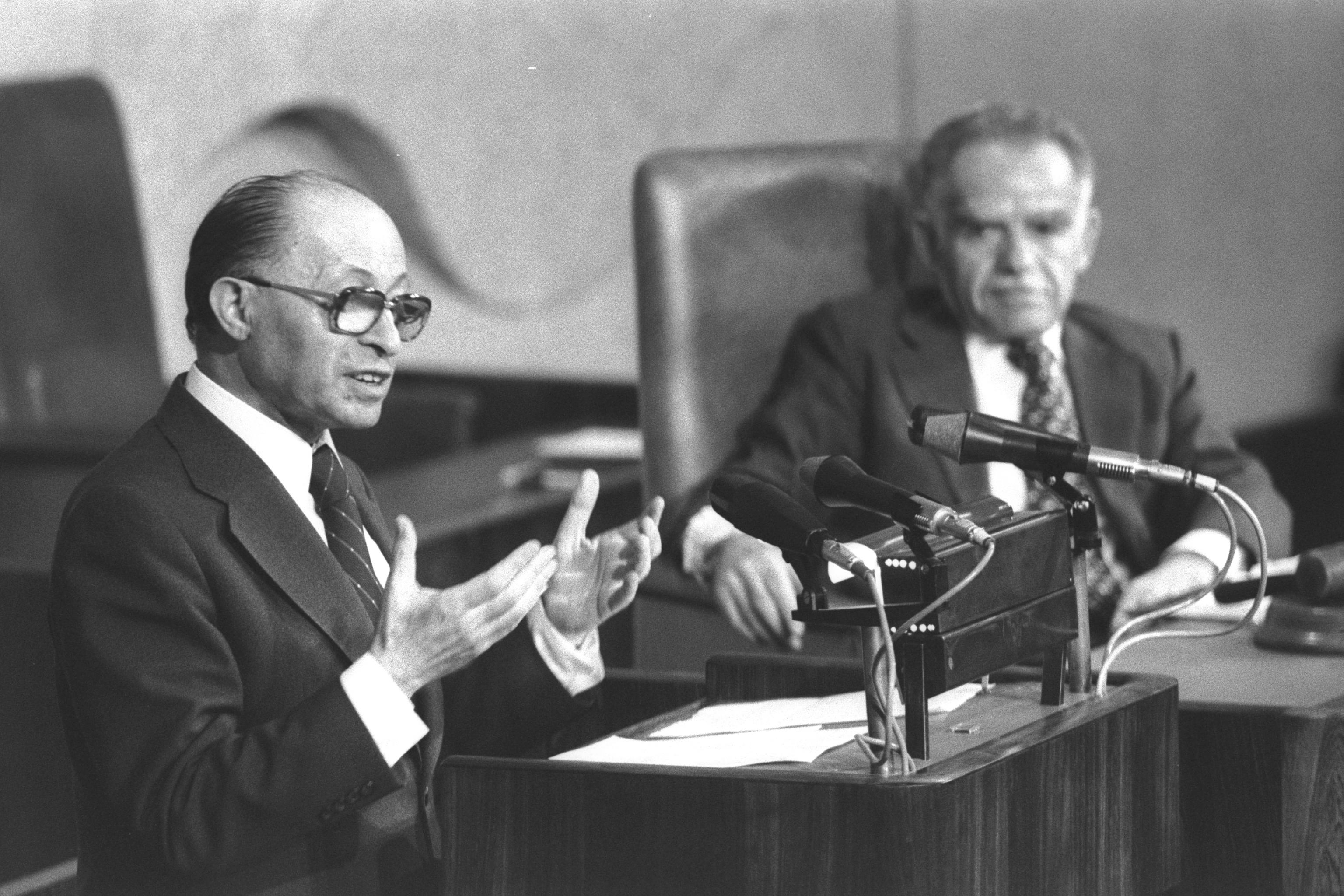 Prime Minister Menahem Begin presents the Knesset with the contents of the peace agreement with Egypt as Yitzhak Shamir looks on. ראש הממשלה מנחם בגין מציג את עיקרי הסכם השלום עם מצרים בפני הכנסת, בירושלים.